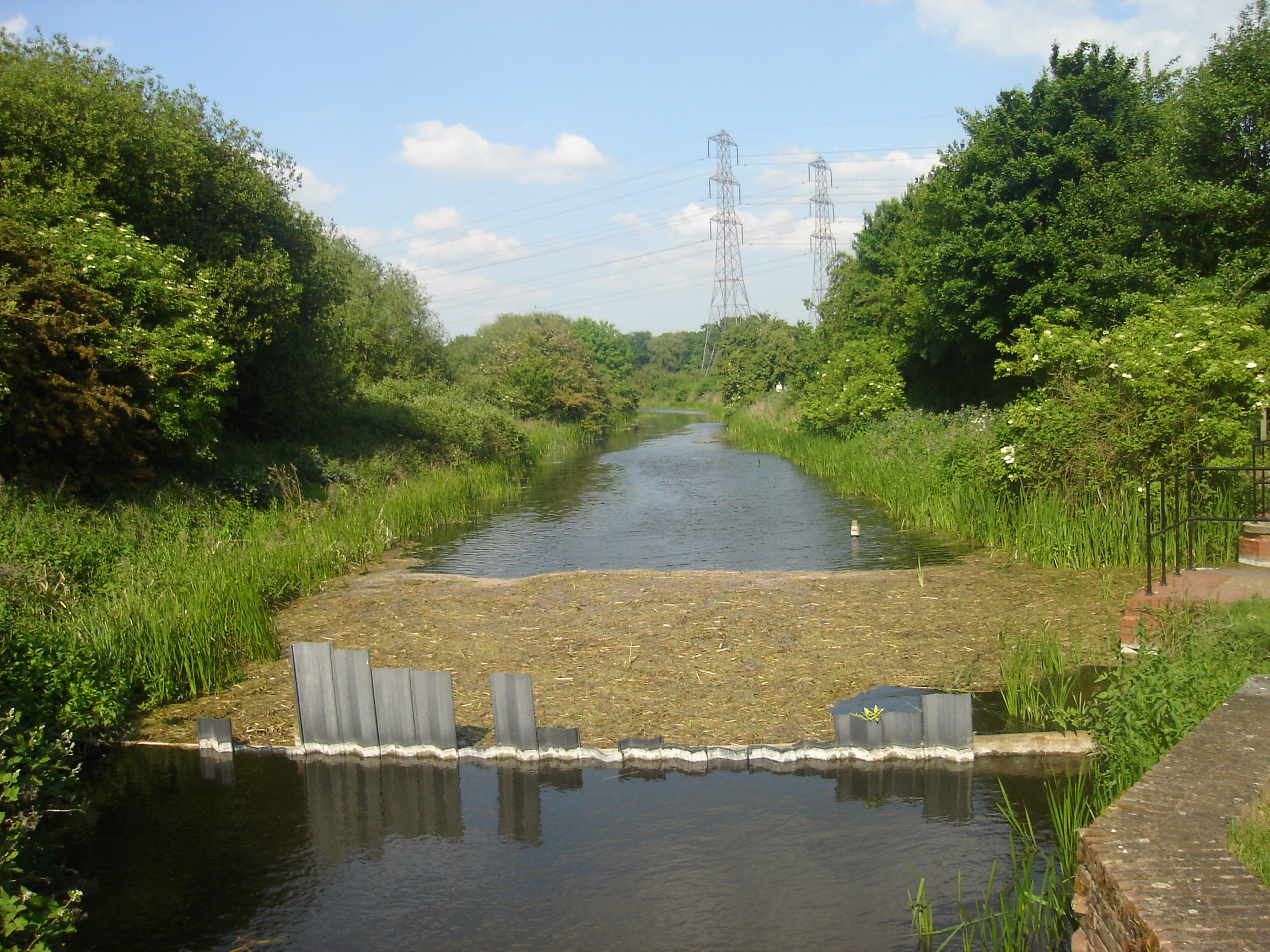 Picture of the Powdermill Cut close to Waltham Common Lock